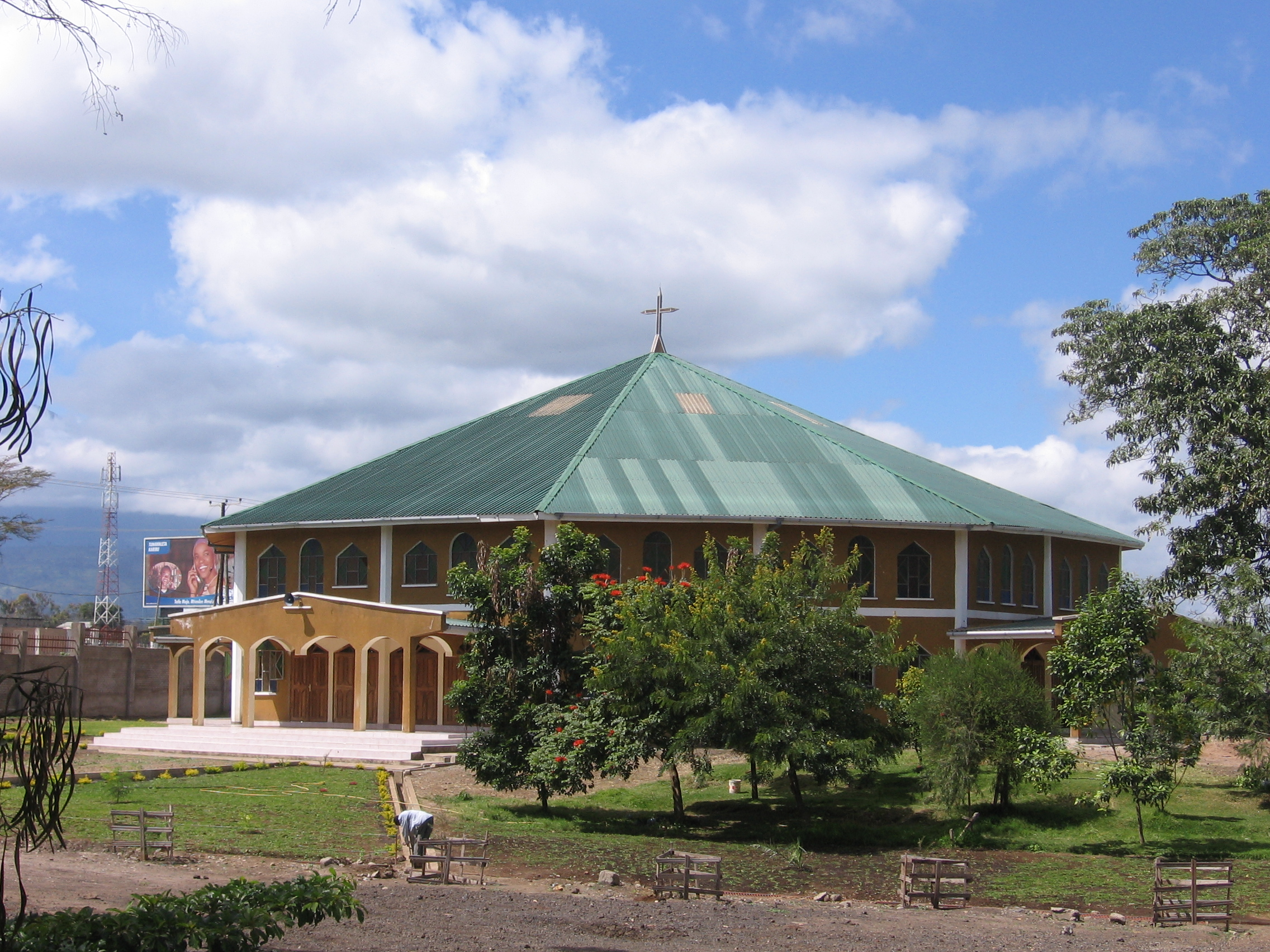 Bishop's Cathedral of Arusha